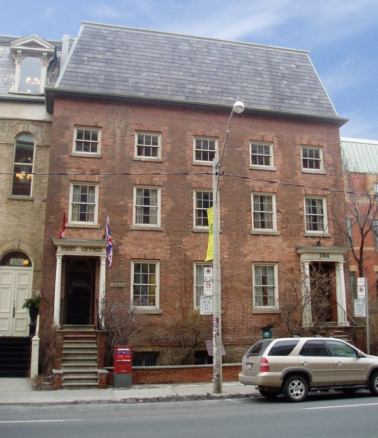 The First Toronto Post Office, taken by SimonP